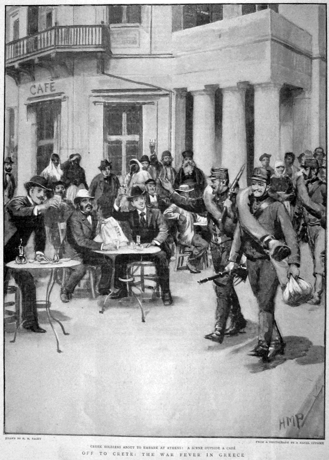 Greek soldiers depart for Crete through the streets of Athens